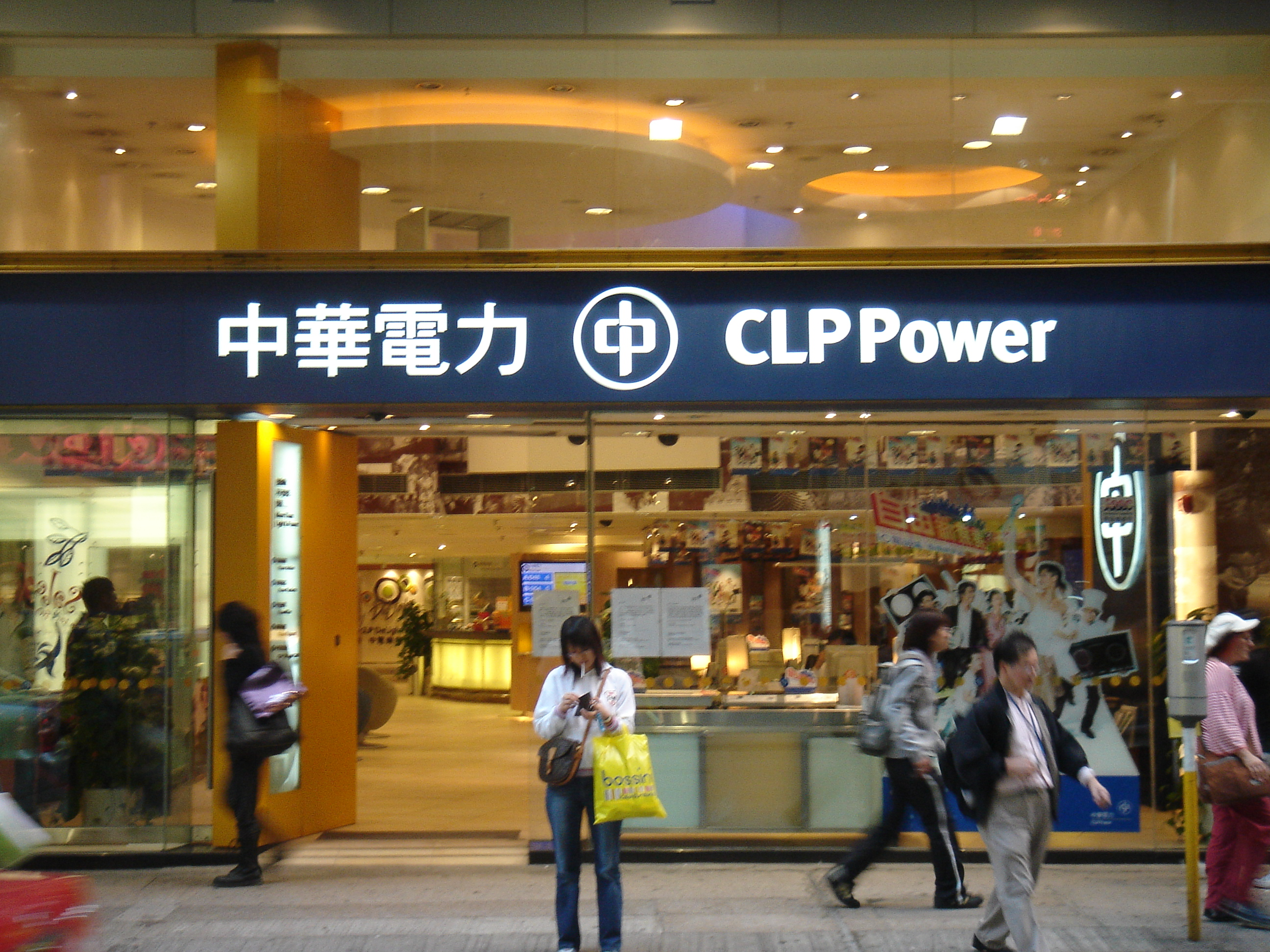 CLP Power shop in Hong Kong.